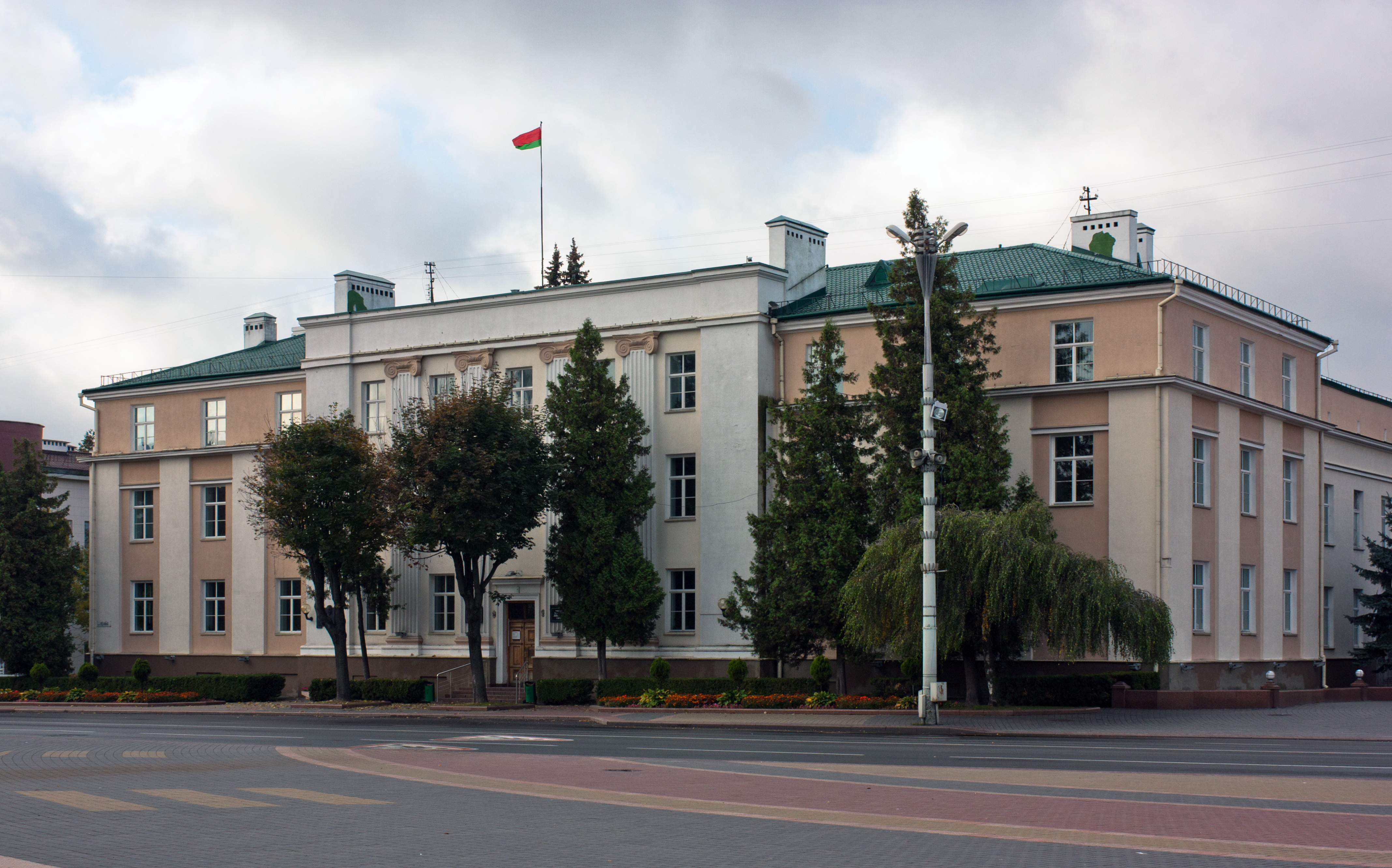 Lienina Street 13 in Brest This is a photo of Belarusian heritage monument. Reference number: 113Г000013 ( WLM)